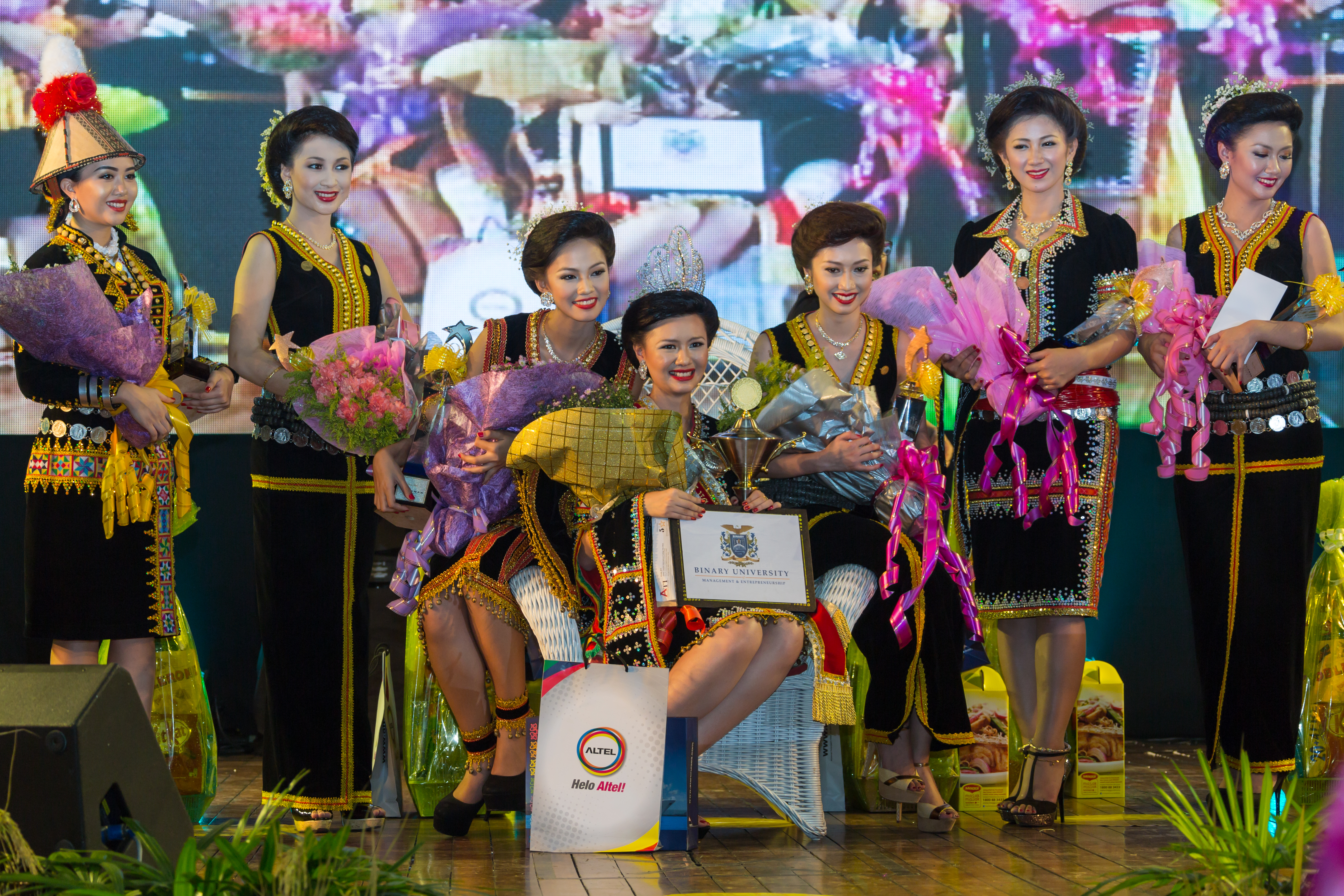 Penampang, Sabah: The Unduk Ngadau 2014, Cheryl Lynn Pinsius, in middle of the six other finalist of the Kaamatan 2014 beauty pageantin the KDCA Unity Hall